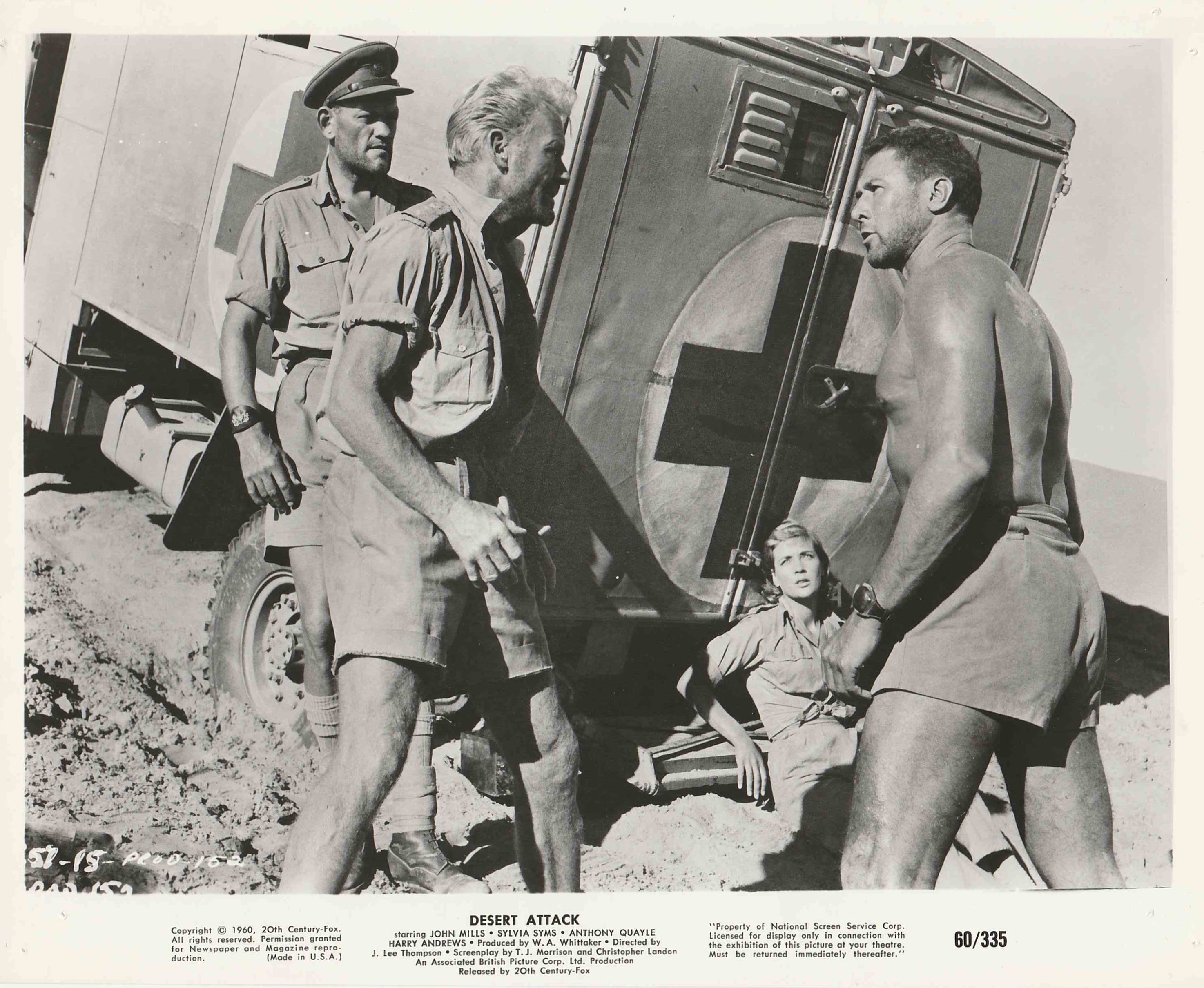 Photograph from the production of the film Desert Attack (1961), which was the North American release of the 1958 British film Ice Cold in Alex. In North Africa during the Second World War, an ambulance has become stuck in the desert. The ambulance is the transport to Egypt and away from the advancing German army. The three actors are Anthony Quayle, John Mills, and Harry Andrews. The actress is Sylvia Syms.